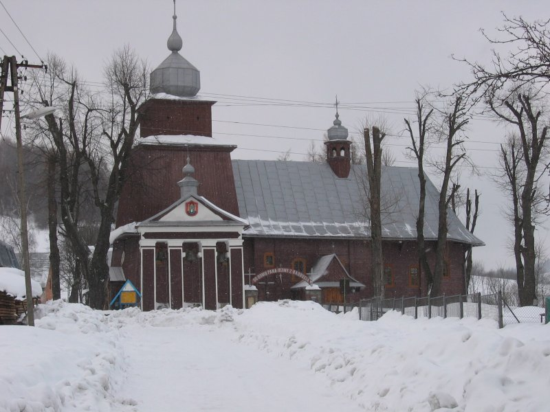 Wooden church in Tylicz